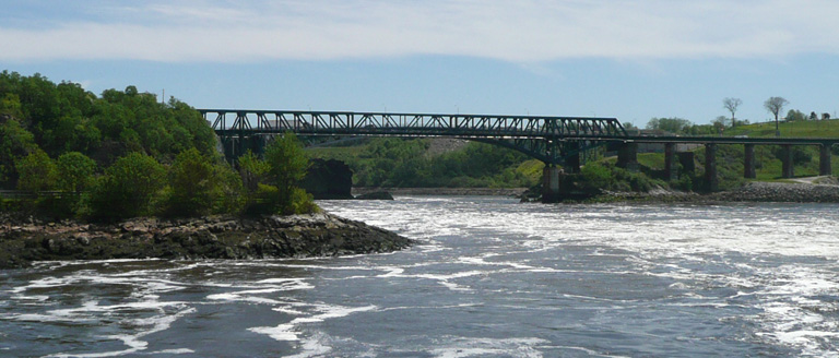 Reversing Falls Railway Bridge in Saint John.